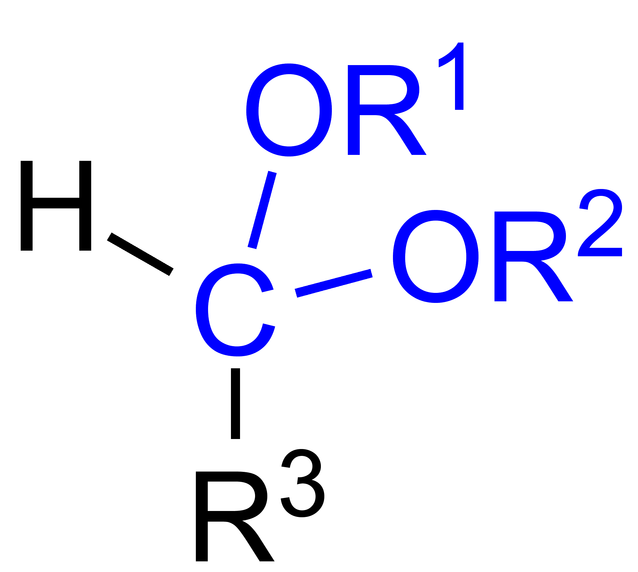 Acetal_Structural_Formulae